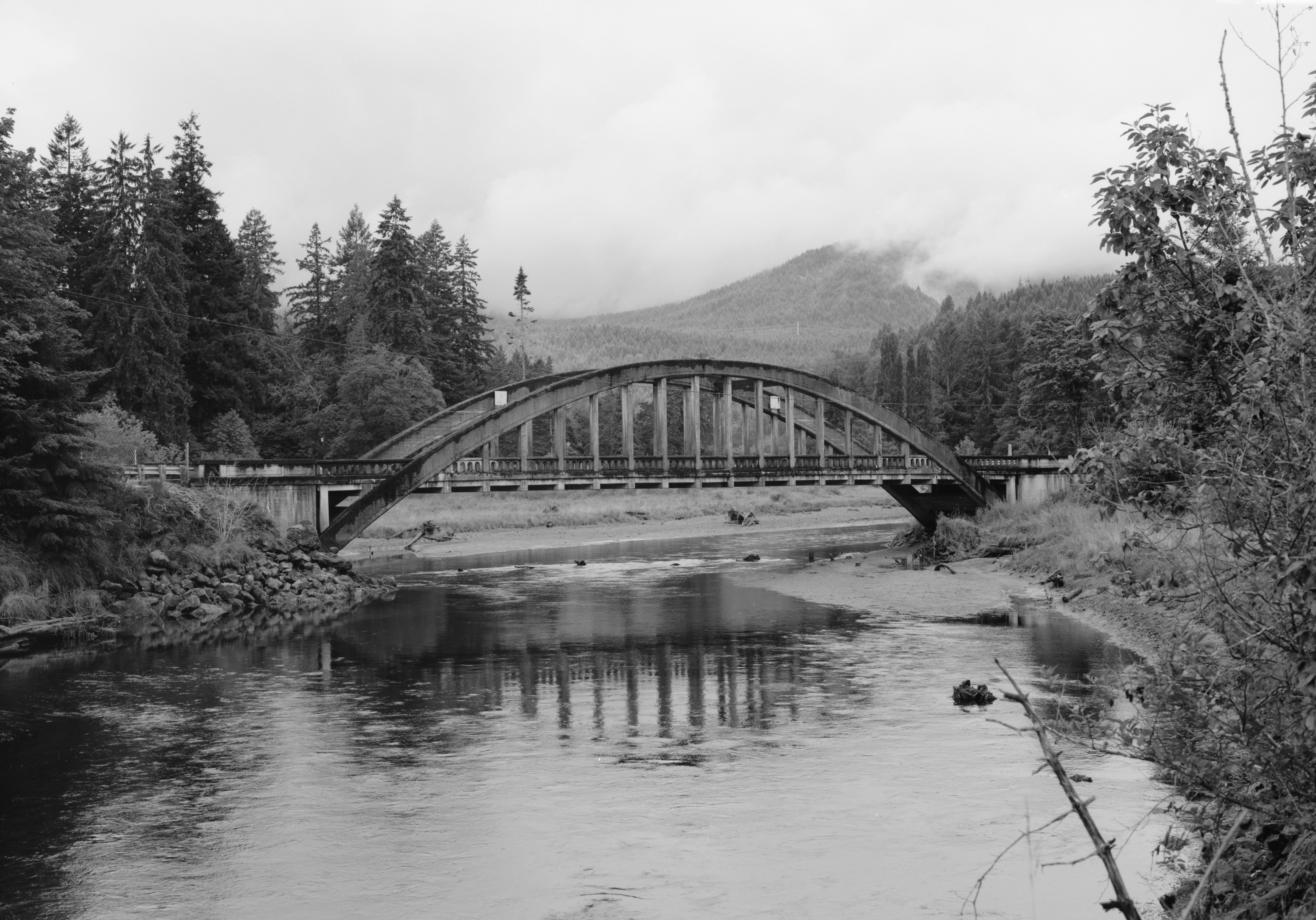 The South Hamma Hamma River Bridge at Eldon, Washington.